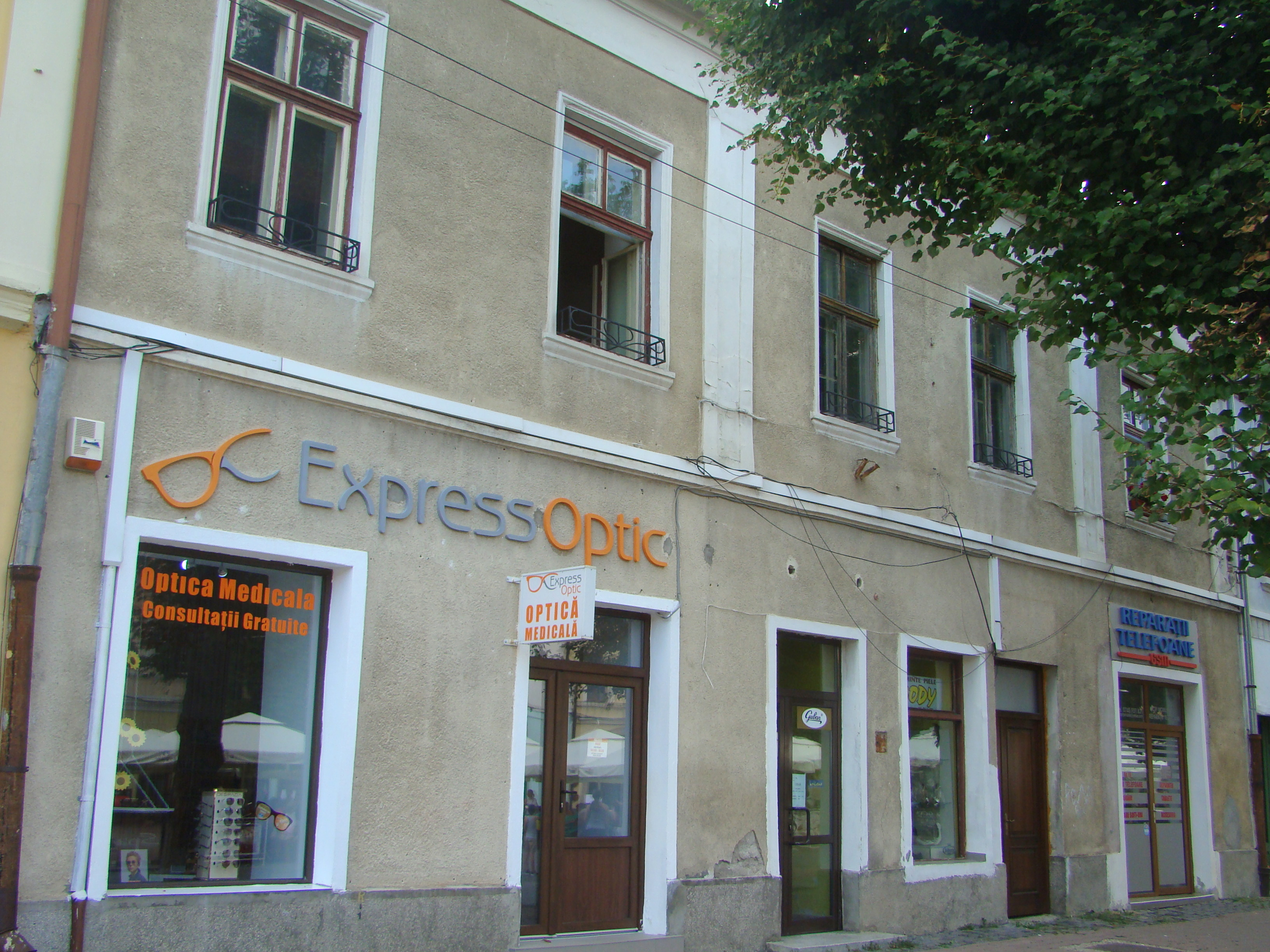 House, historic monument, in Bistrița, Liviu Rebreanu street 11